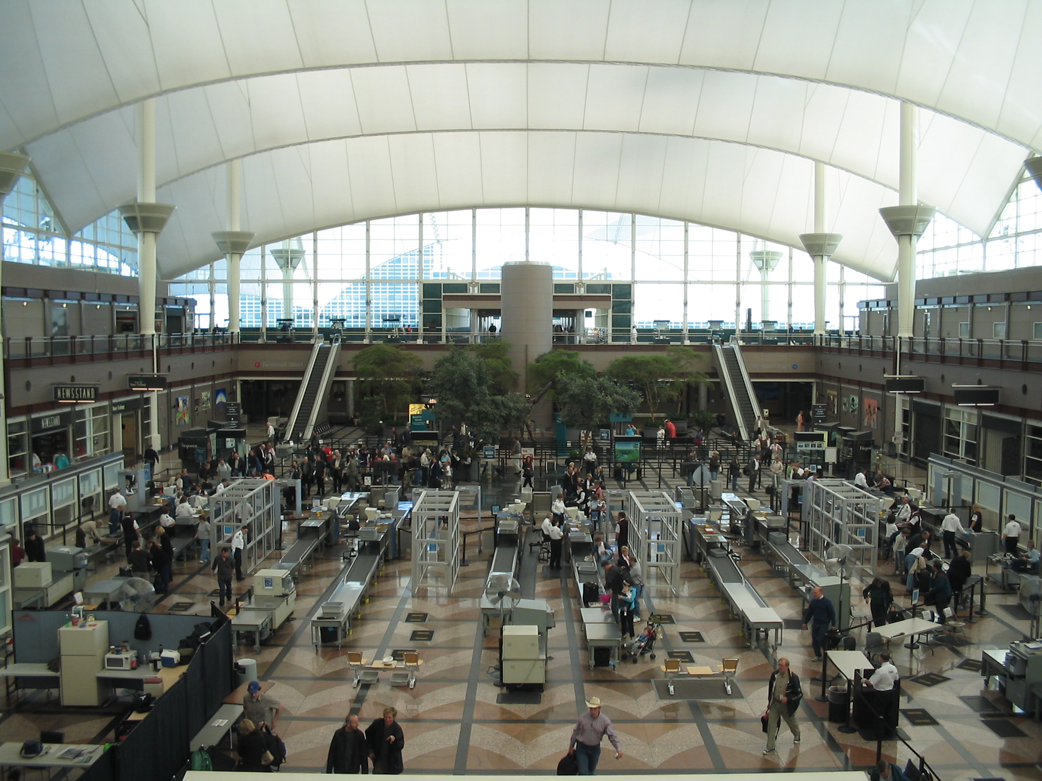 The security screening area at Denver International Airport. The view is from almost the same location as Image:Denver International Airport terminal.jpg, but facing the opposite direction along the building. David Benbennick took this photograph Friday, April 22, 2005 at 9:19 AM (local time).